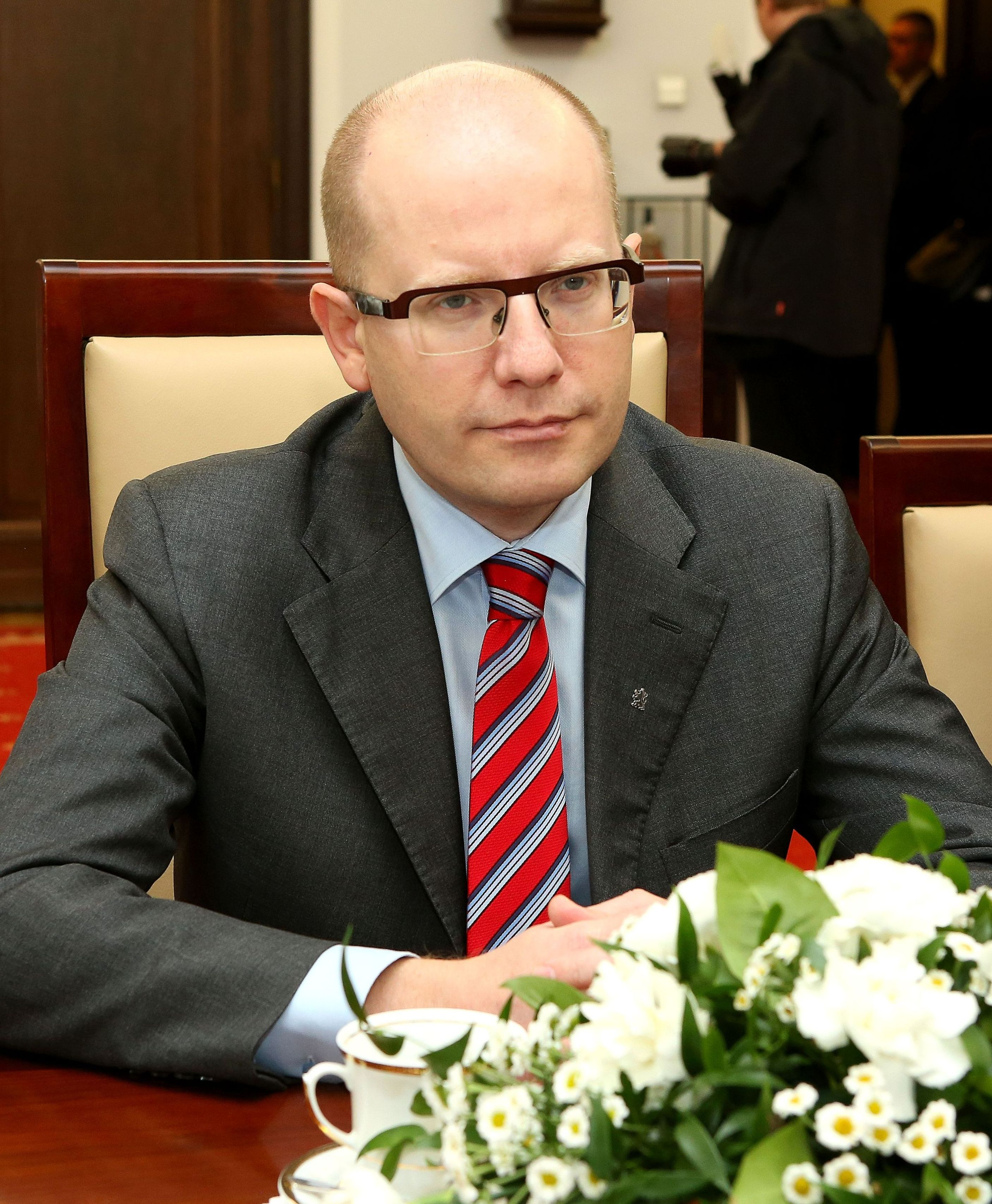 Prime Minister of the Czech Republic Bohuslav Sobotka in the Polish Senate